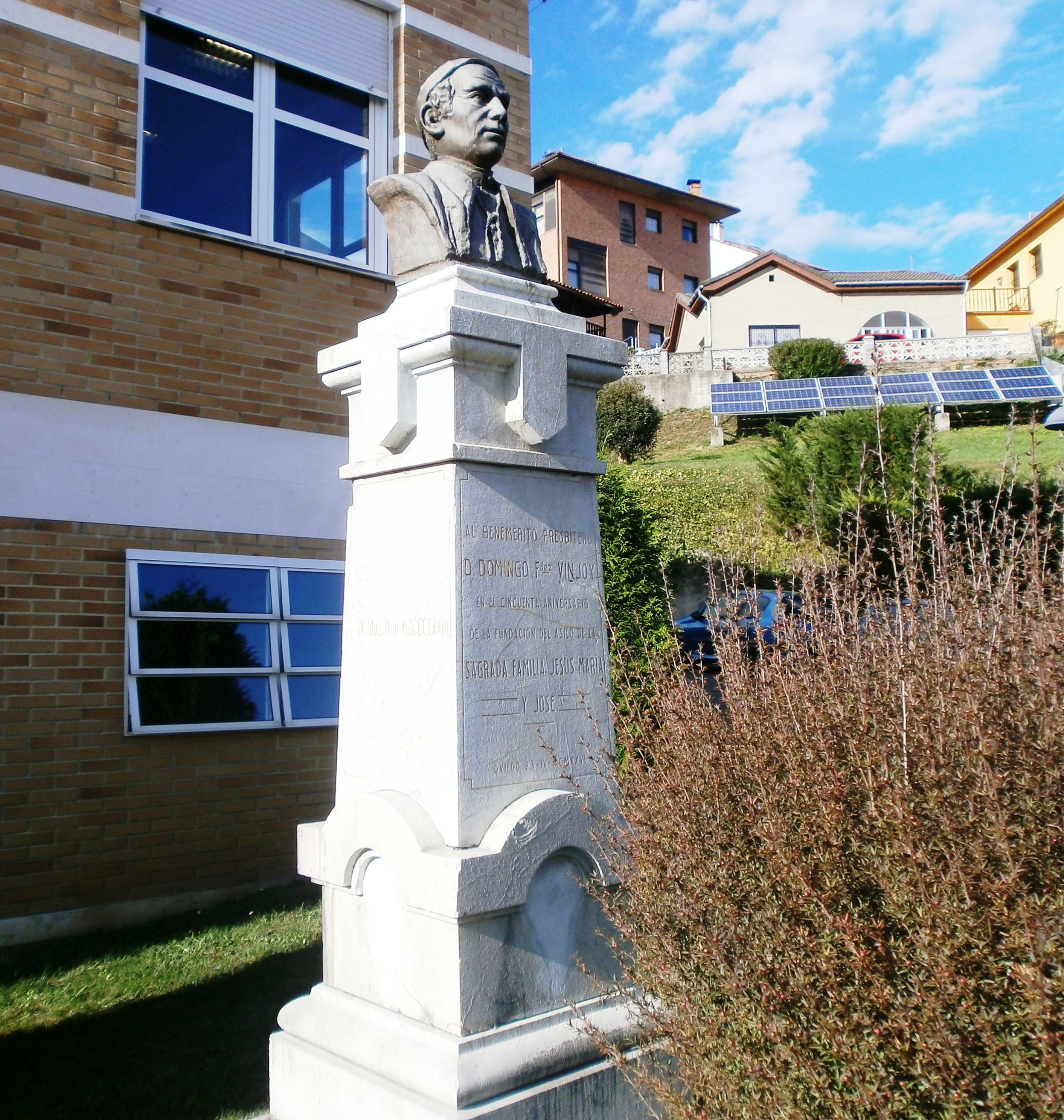 Esculturas de Oviedo alaire libre